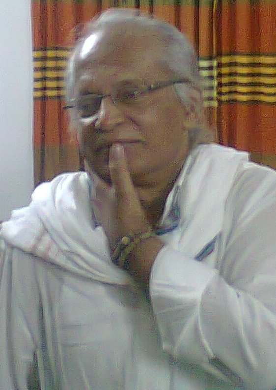 Farhad Mazhar listening to a visitor at UBINIG, Shyamali, Dhaka